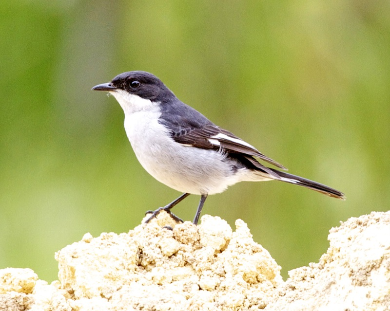 Fiscal Flycatcher Sigelus silens - Clements 6th edition Melaenornis silens (H&W) Nominate race: Melaenornis silens silens 4th. October 2009 Moore's End, A proteus farm near Stellenbosch, South Africa Distribution: 690V5246